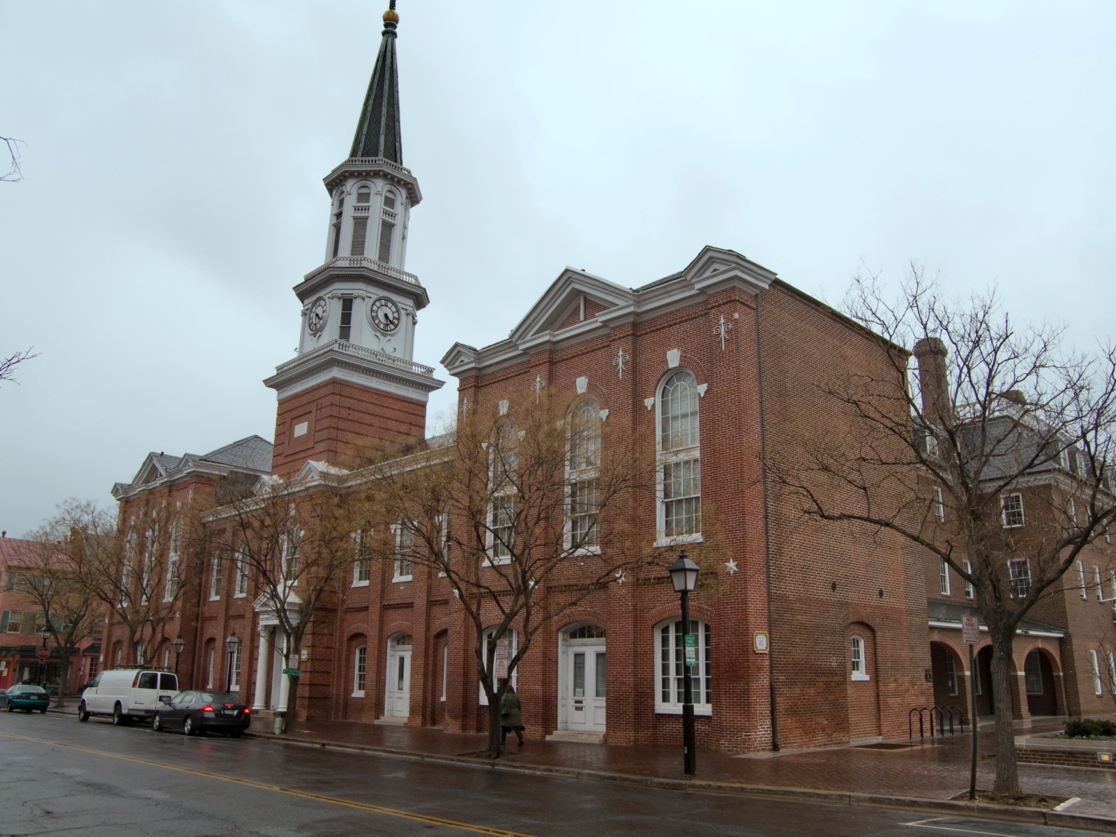 Alexandria City Hall, Virginia, USA